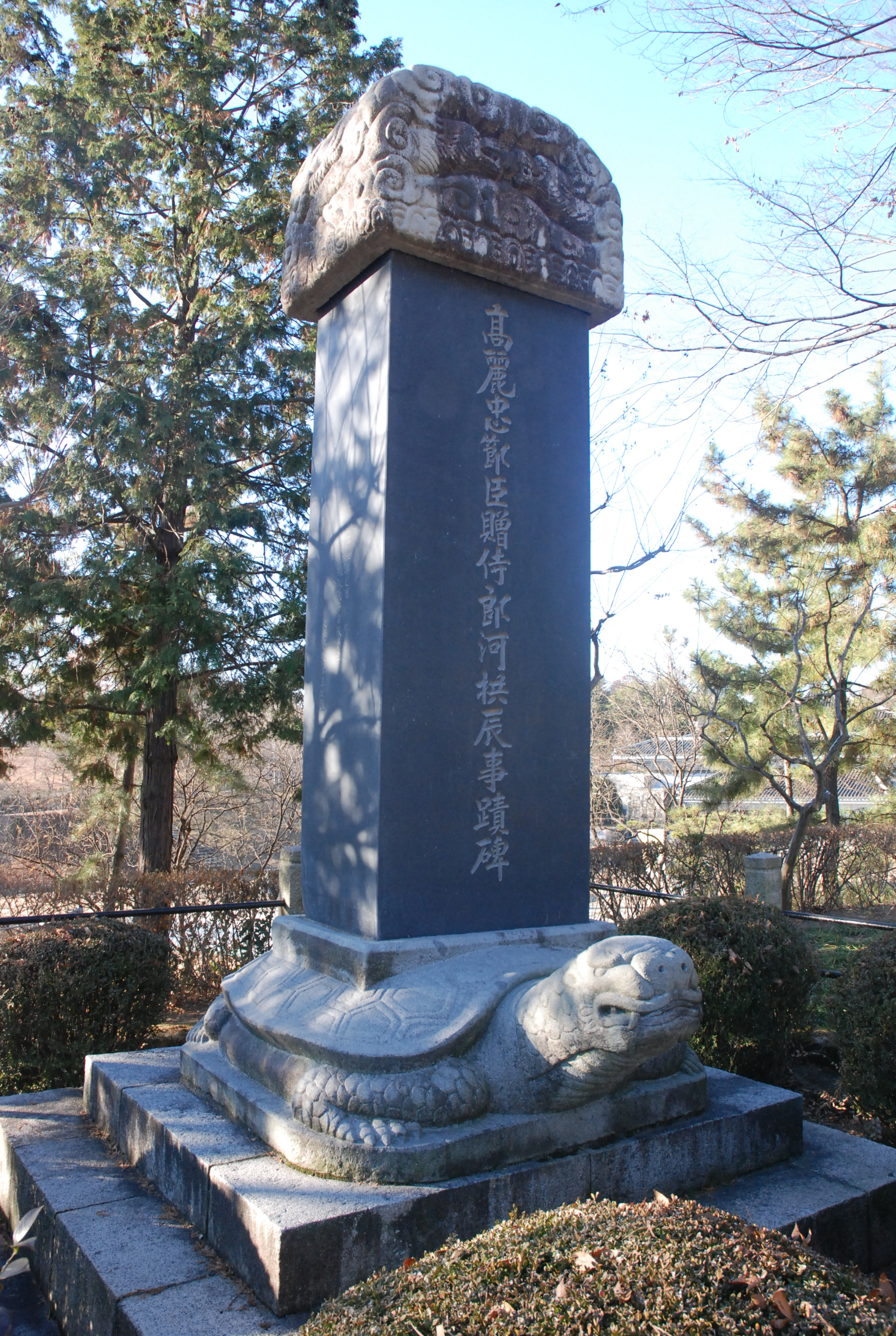 Ha gongjin monument, Corea ambassador against Khitan invasion in 1101